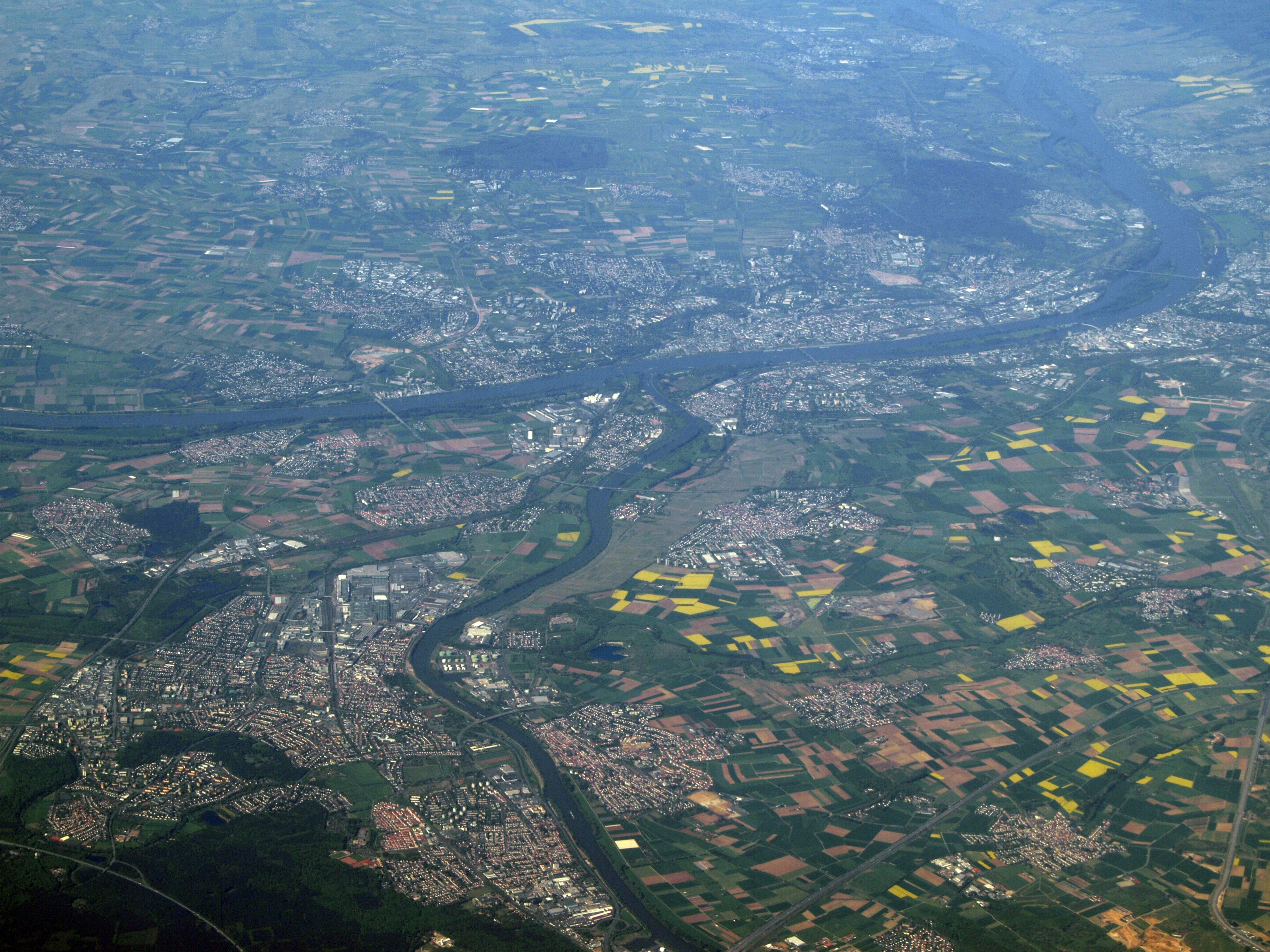 aerial view of the Main river flowing (upward) into the Rhine (flowing from left to right)